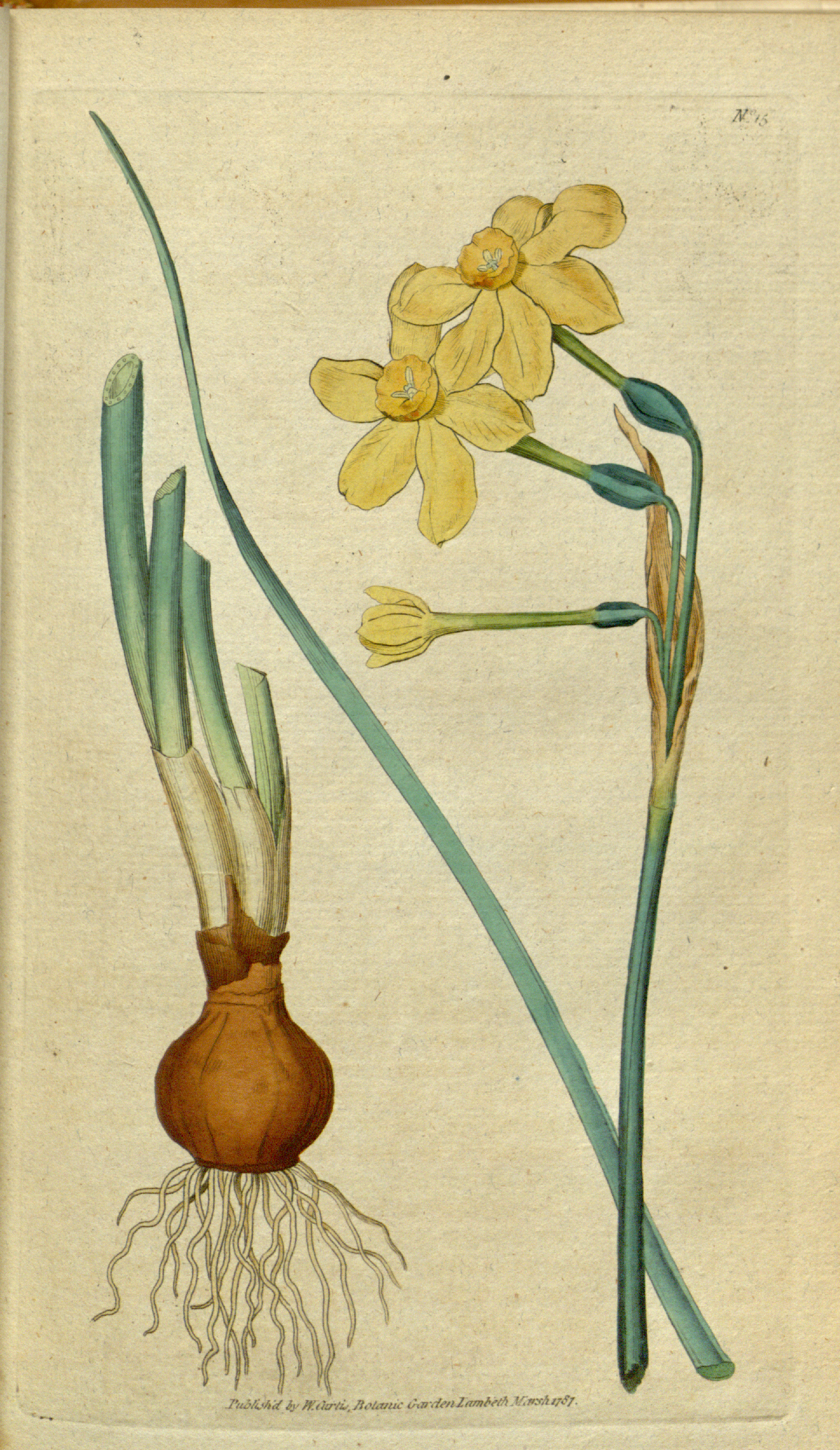 This is Plate 15 from The Botanical Magazine, Volume 1. Narcissus jonquilla